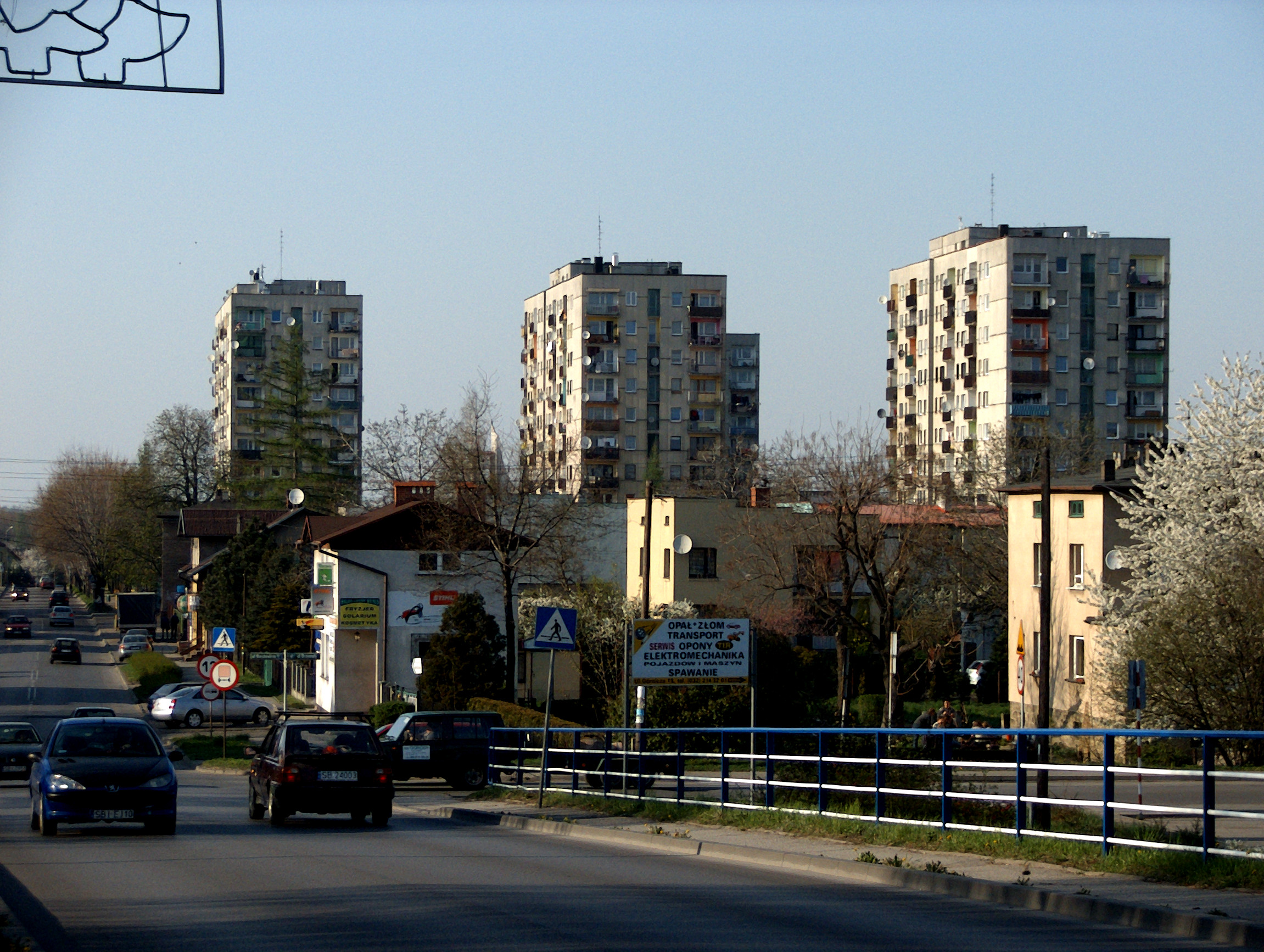 Settlement "Manhattan" in Czechowice-Dziedzice.